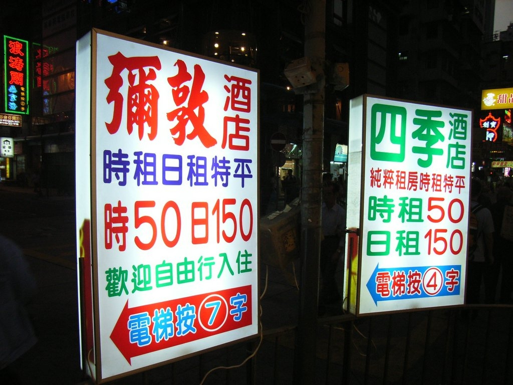 砵蘭街 (英文名: Portland Street)，是一條有強烈特色的街道。 人稱 "聲色犬馬、龍蛇混雜" 之地 It is a section in Mong Kok & has many popular scene in Hong Kong films.